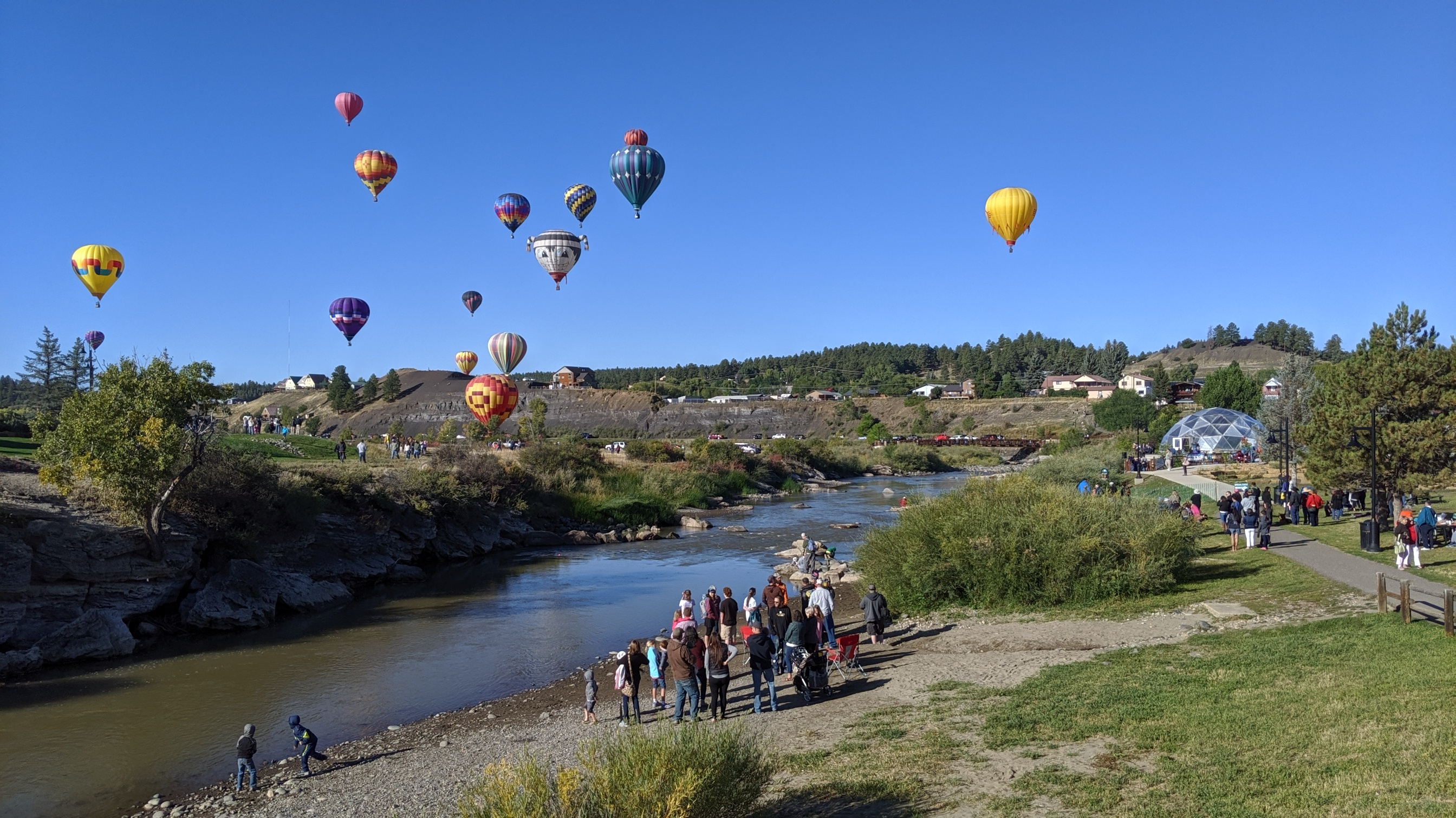 San Juan River at Pagosa Springs, Colorado, with balloons from Colorfest 2019 mass ascension.